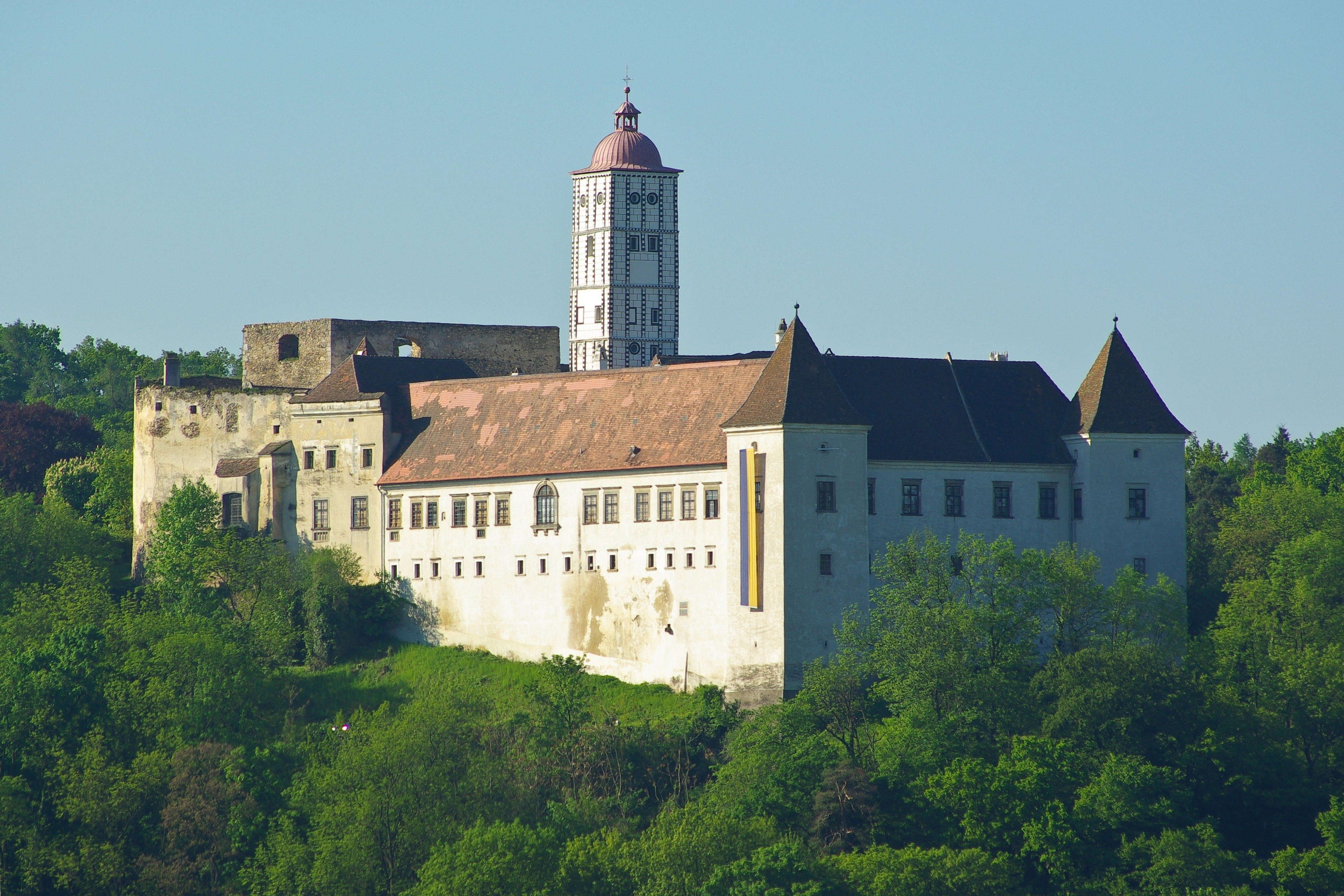 Schallaburg Castle in Lower Austria.